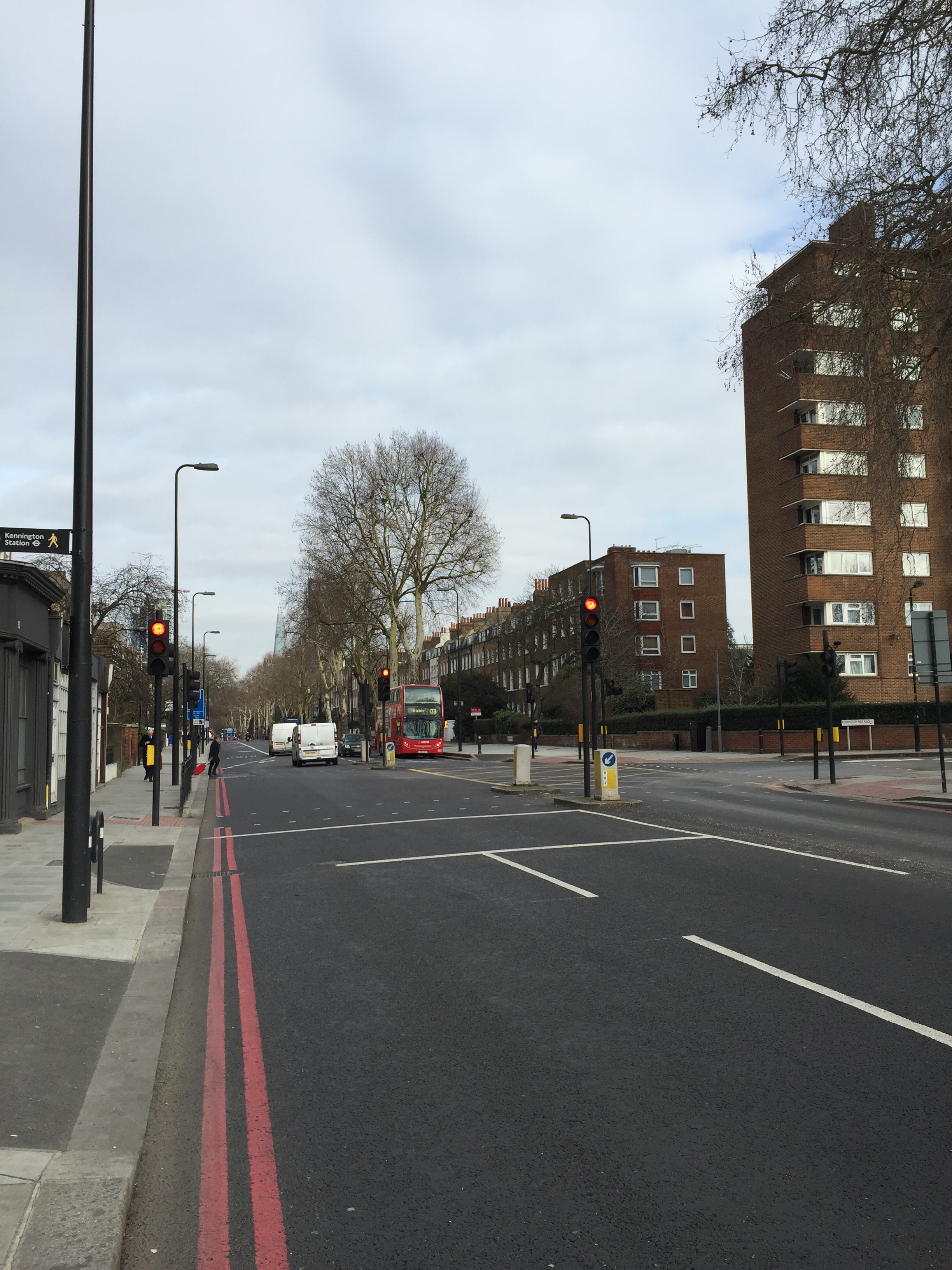 View of south end of Kennington Park Road facing north.